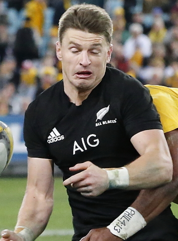 2017.08.19.21.47.20-Beauden Barrett 2017 Rugby Championship, Bledisloe 1, Australia vs New Zealand, 19th August, ANZ Stadium, Sydney